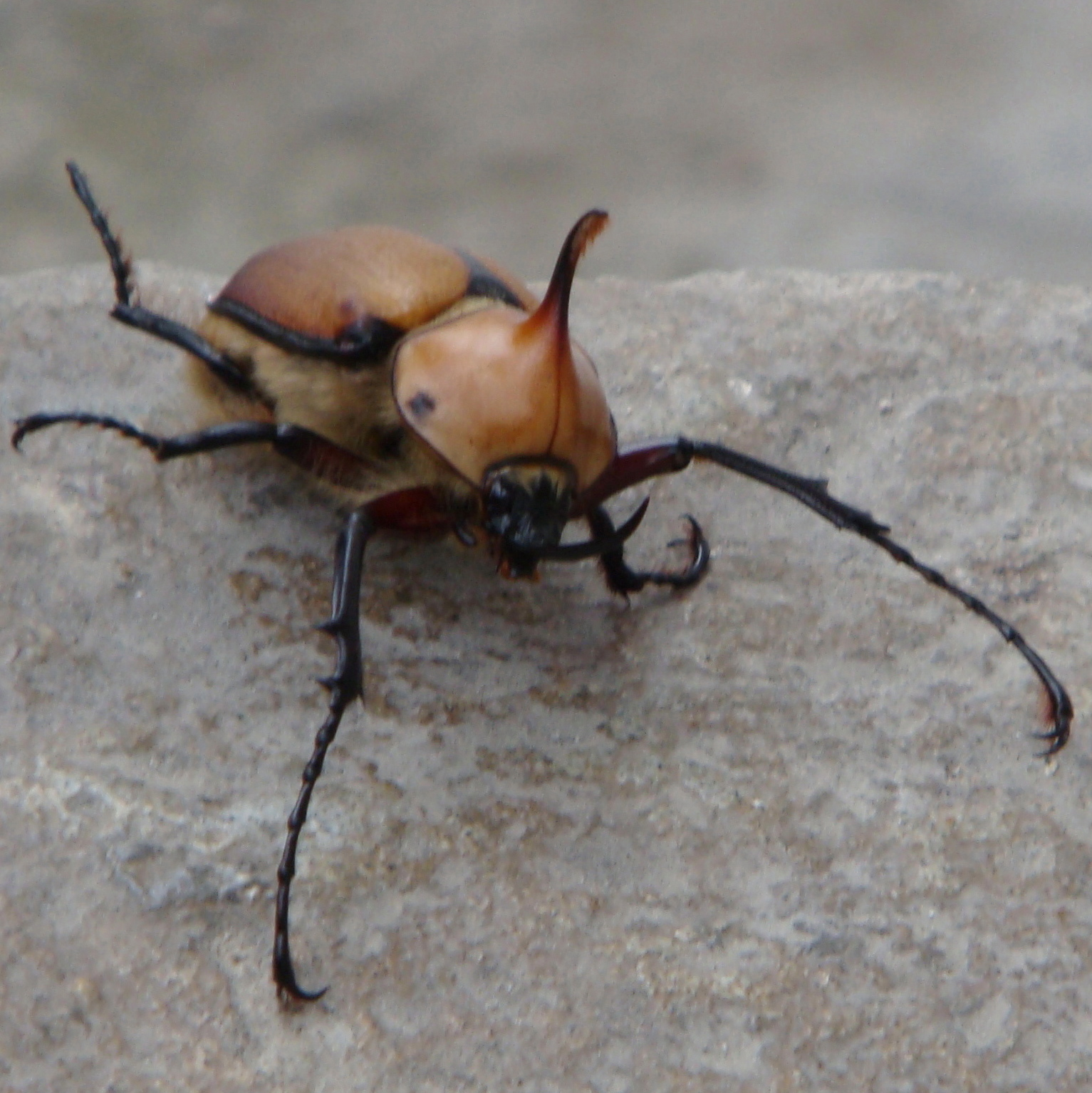 Also on the way to Ingapirca, we stopped at a family's farmhouse, and I saved their chicken. There chicken, who had recently given birth to several little chicks, was tied by her foot to a tree. The chicken had a fairly long leash but had gotten it stuck on a twig, and so the leash then only had a few inches. I rescued the poor chicken who was desperately tugging at her rope by tricking her into walking in circles backwards, until the rope was unwound from the branch. On that drive, we past a lot of cure baby pigs, sheep, and cows on the side of the road. We also saw a bunch of the cool, horned roaches in the picture.